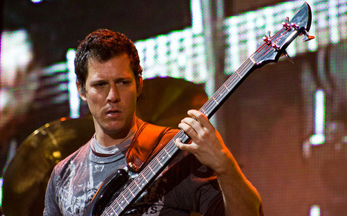 Dave Matthews Band (3/10/2008) - Pepsi Music Festival, Club Ciudad de Buenos Aires - Buenos Aires (Argentina) Stefan Lessard is the bass guitarist for the Dave Matthews Band